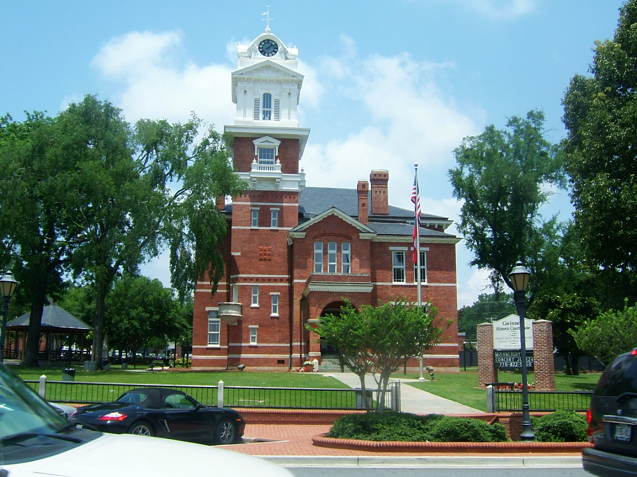 The historic Gwinnett County Courthouse as seen from West Crogan Street in Lawrenceville, Georgia.